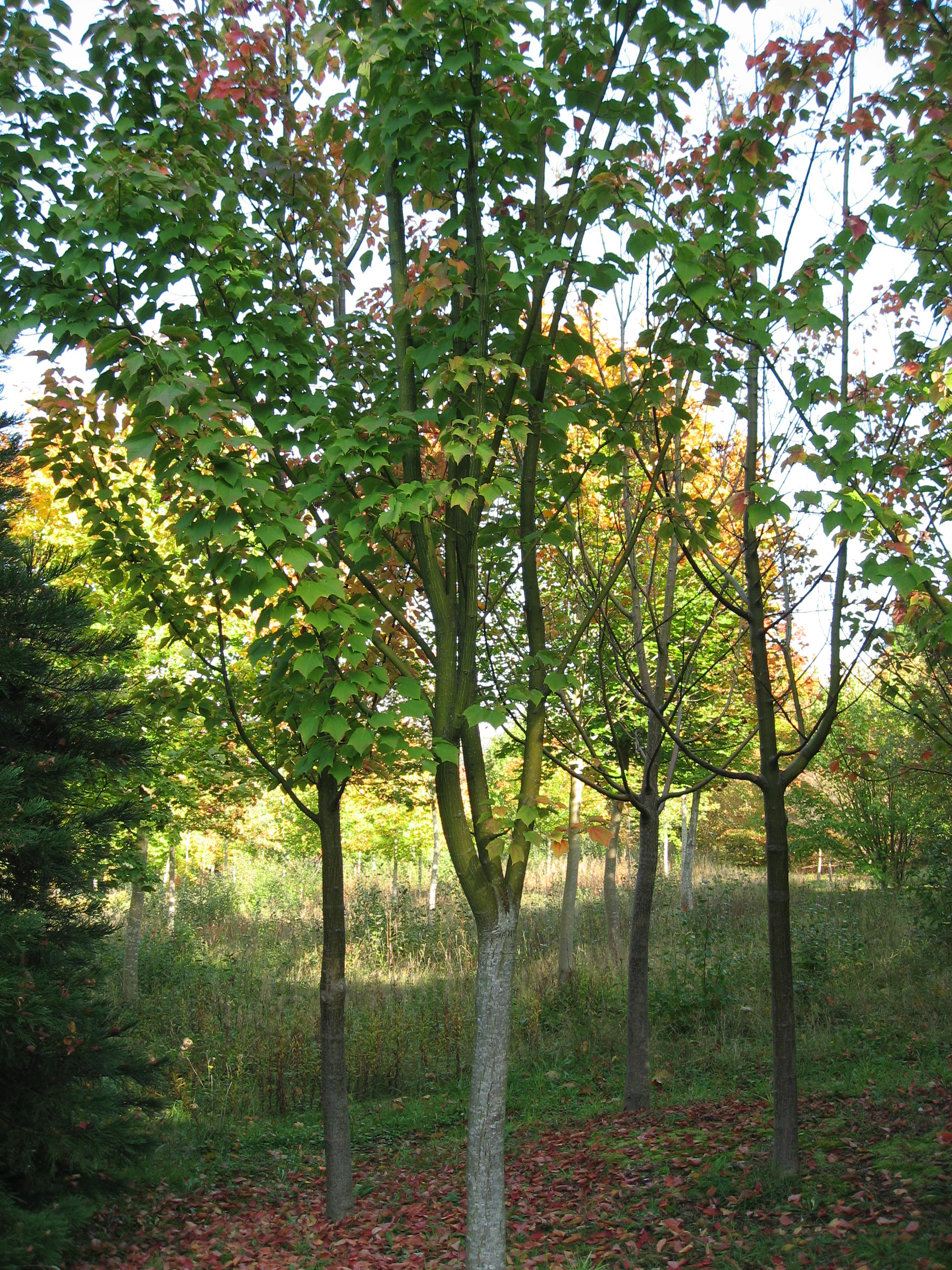 Acer rufinerve in Arboretum de La Roche-Guyon Map: 49° 5' 56" N 1° 38' 23" E